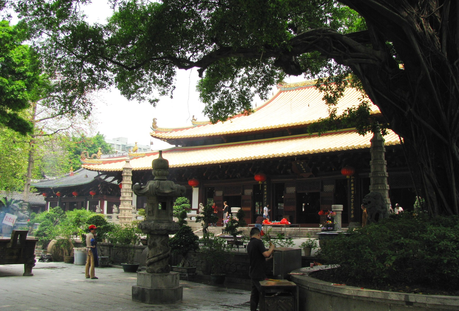 The Mahavira Palace of Guangxiao Si Guangzhou, China.中国广州光孝寺大雄宝殿。